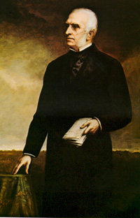 Image of Robert Charles Winthrop